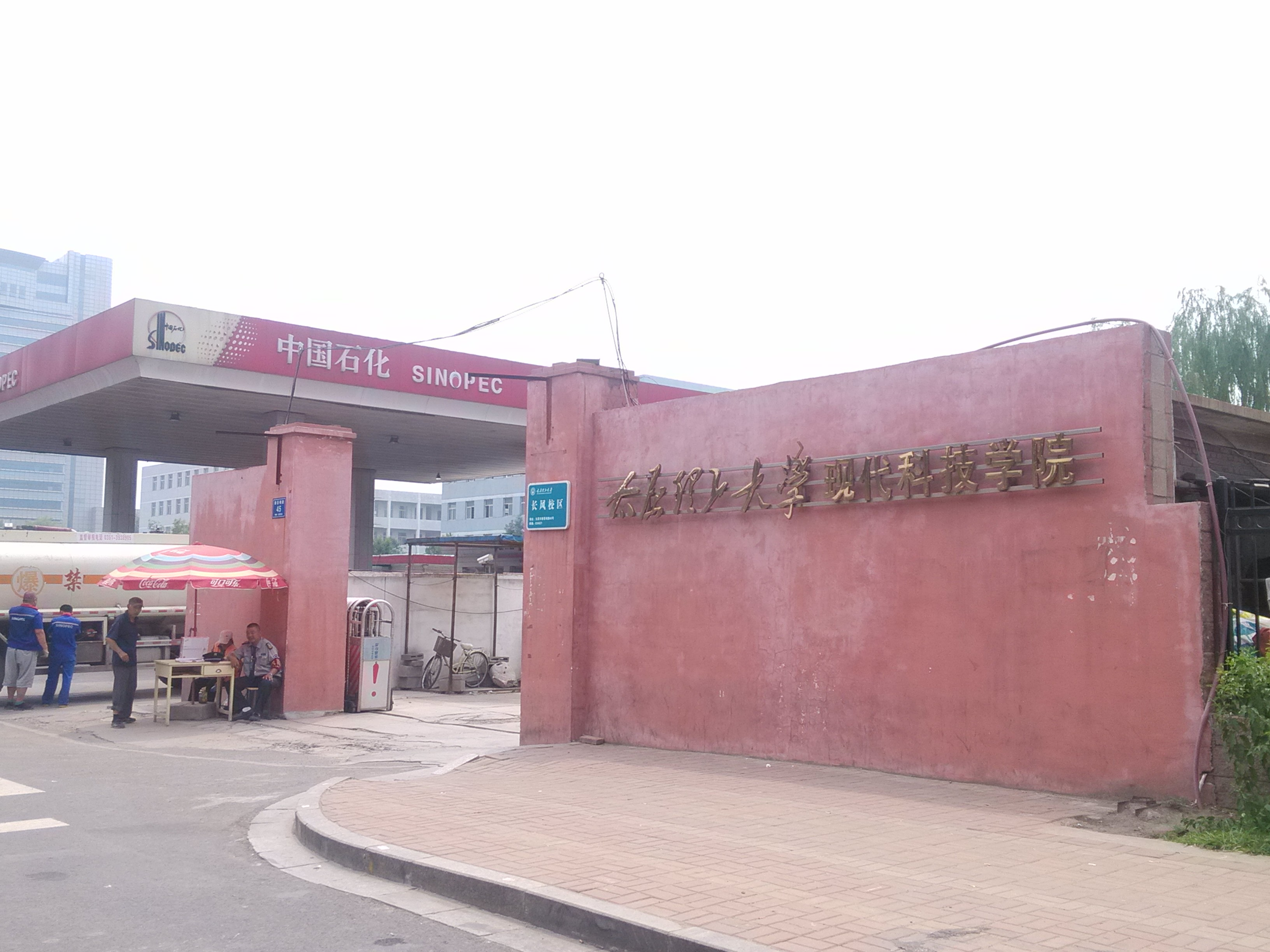 Taiyuan University of Technology Changfeng Campus.